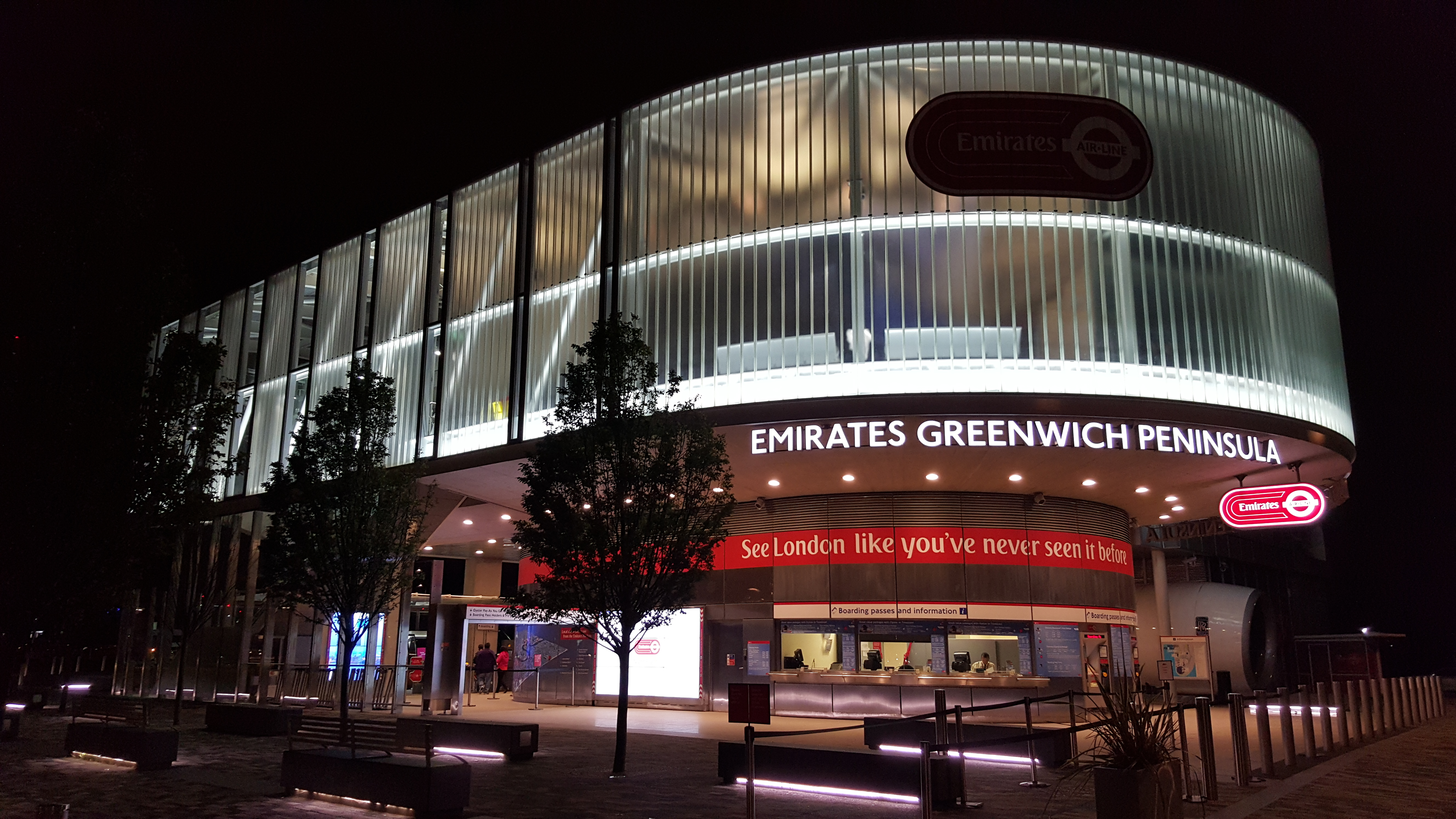 Emirates Greenwich Peninsula terminal of the cable car at night